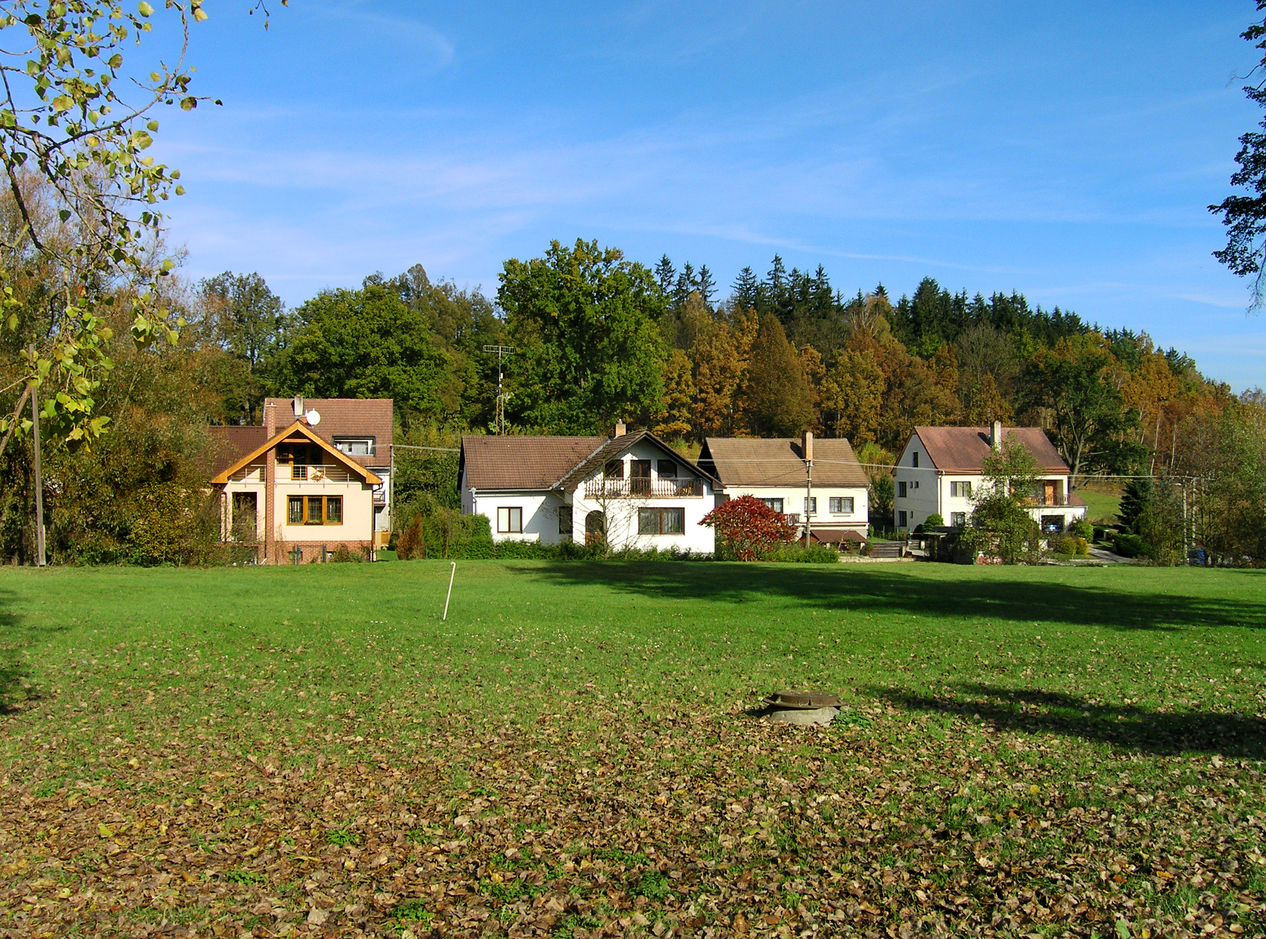 North part of Plandry village, Czech Republic